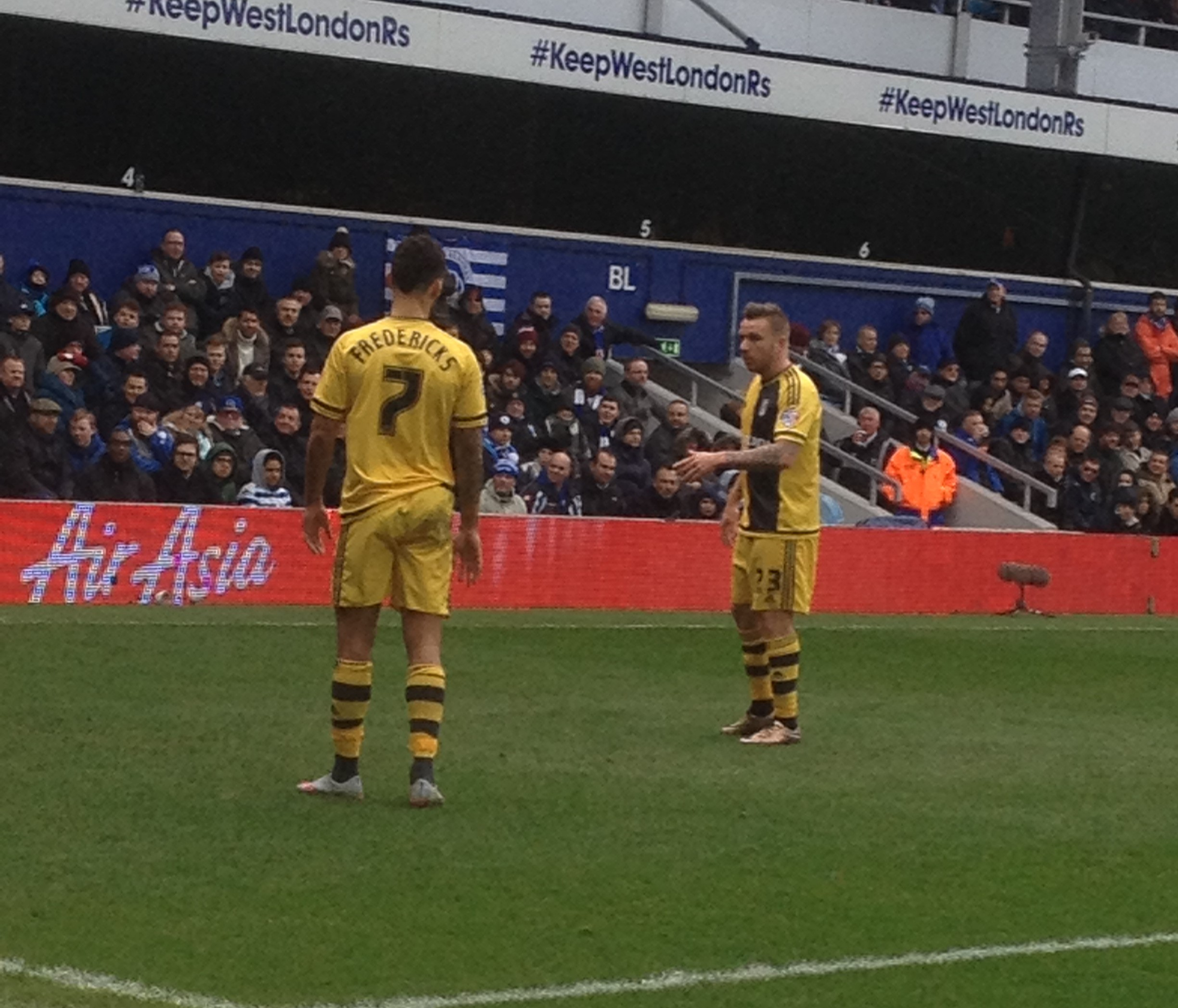 Ryan Fredericks (7) and Jamie O'Hara (23) playing alongside during the match against Queens Park Rangers.